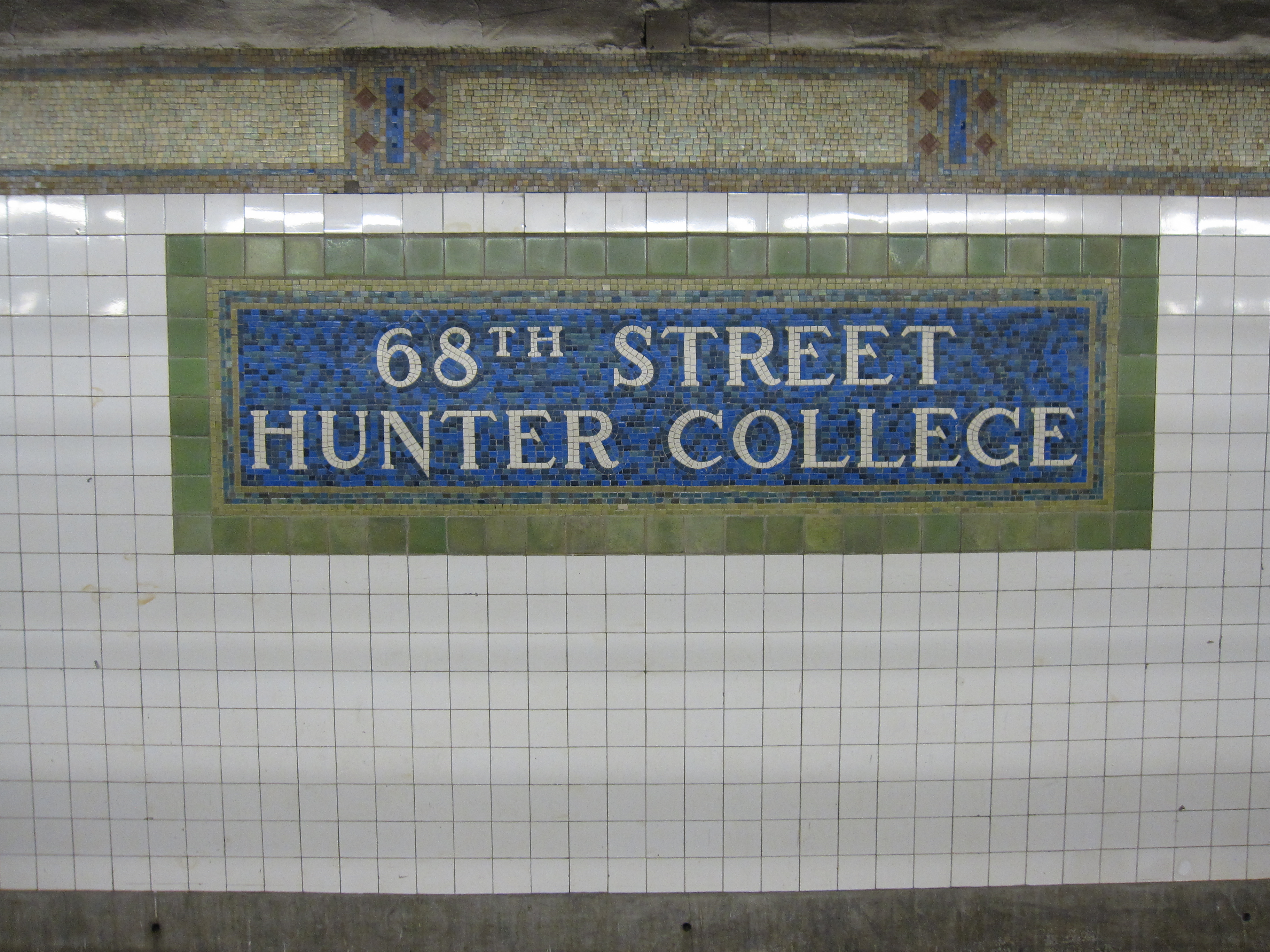 68th Street – Hunter College (IRT Lexington Avenue Line)